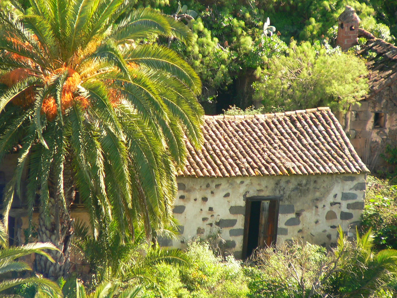 In Santa Brígida, Gran Canaria (Canary Islands, Spain). To the left was the actual house, a two story not much bigger than this one. This was probably a kind of storage room. The building to the right was the kitchen. In the Canary Islands outside kitchens were very common, due to the weather (not so cold and your house keeps cooler in the summer if no fire is made inside it) and because of the fear of fires, as the wood of choice for buildings was resinous heart of pine - the resin that protected it from insect and fungal attack also makes it burn easily.